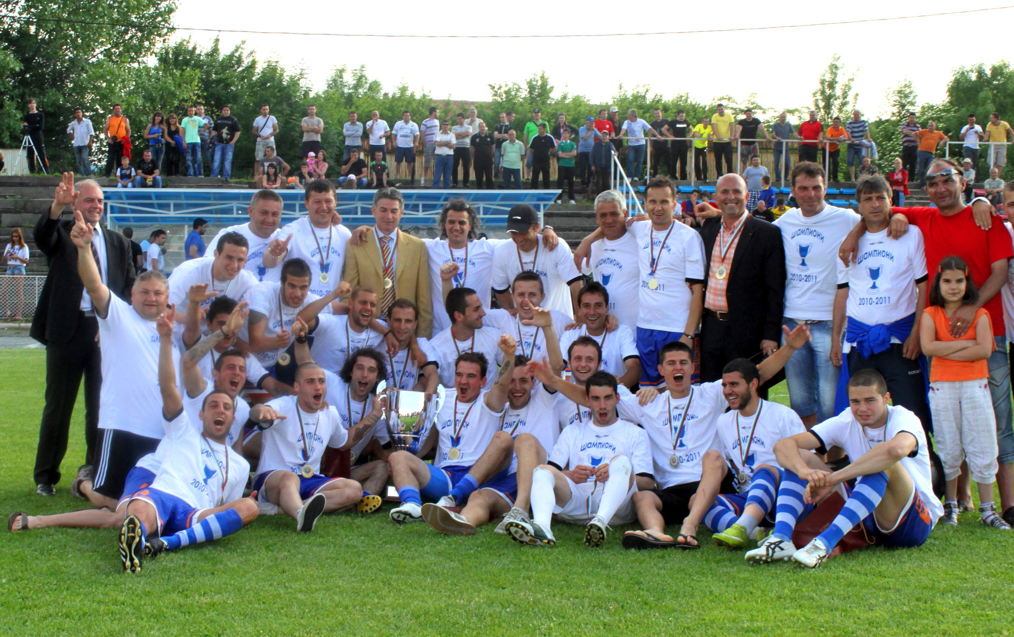 Slivnishki geroi with amateur football cup 2011.